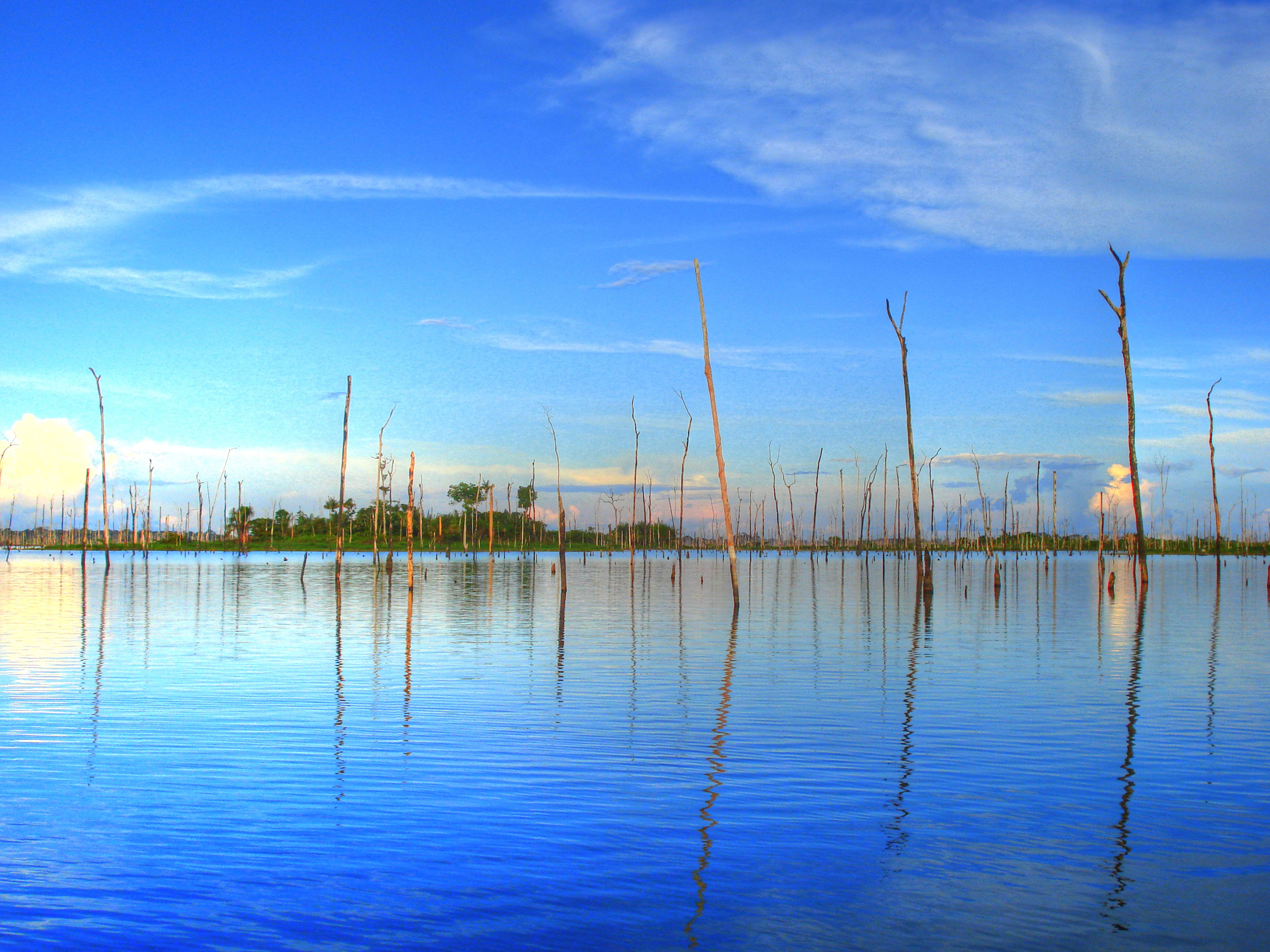 Balbina Dam (Usina Hidreletrica de Balbina), in Amazon, Brazil